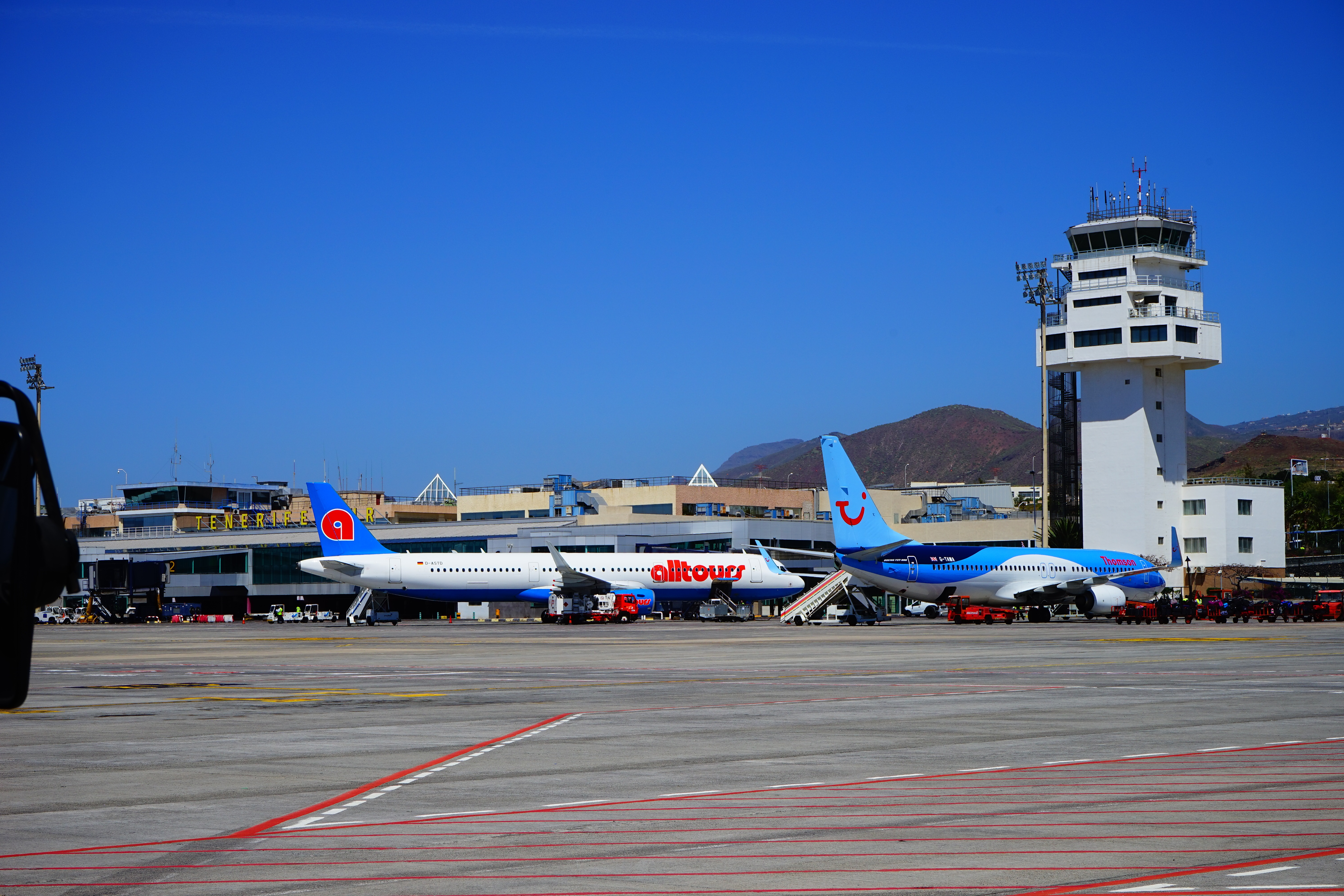 G-TAWA and D-ASTD on TFS